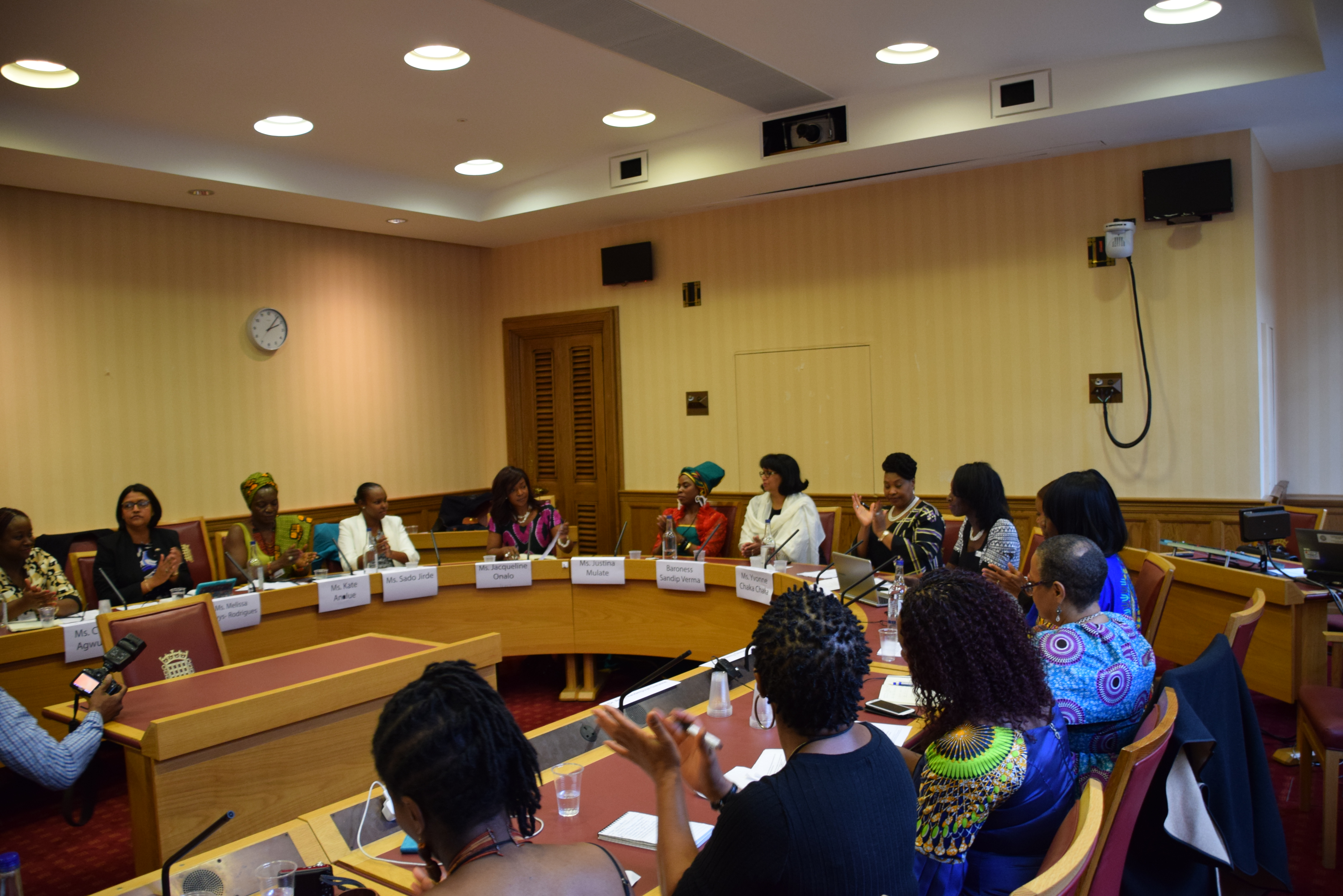 Africa Rising Ladies Conference Chioma Agwuegbo, Melissa Powys-Rodrigues, Chief Kate Anolue with Justina Mutale, Rt Hon Baroness Sandip Verma, Yvonne Chaka Chaka et al at the House of Lords London